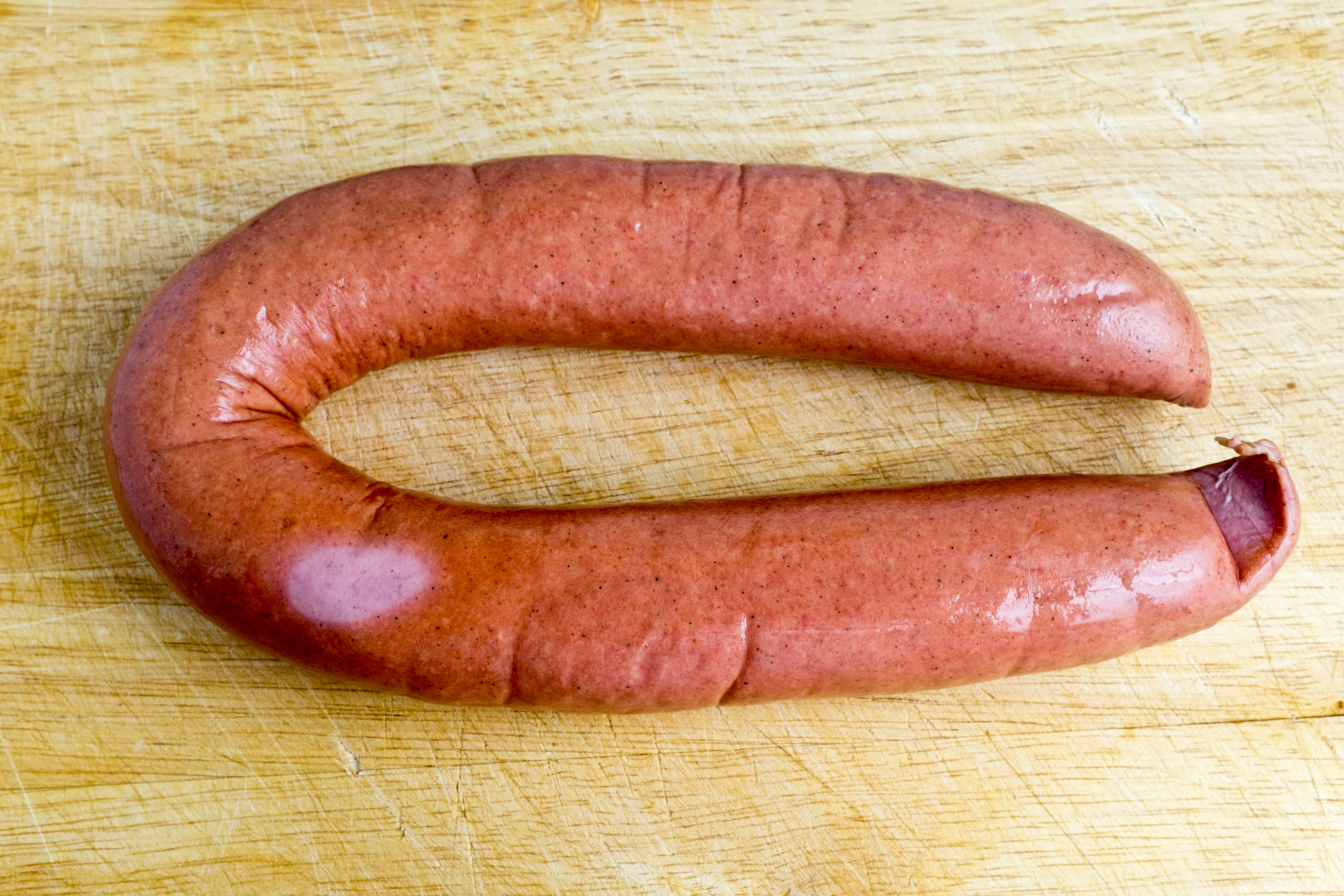 Ring Bologna, from Fred Usinger's company.